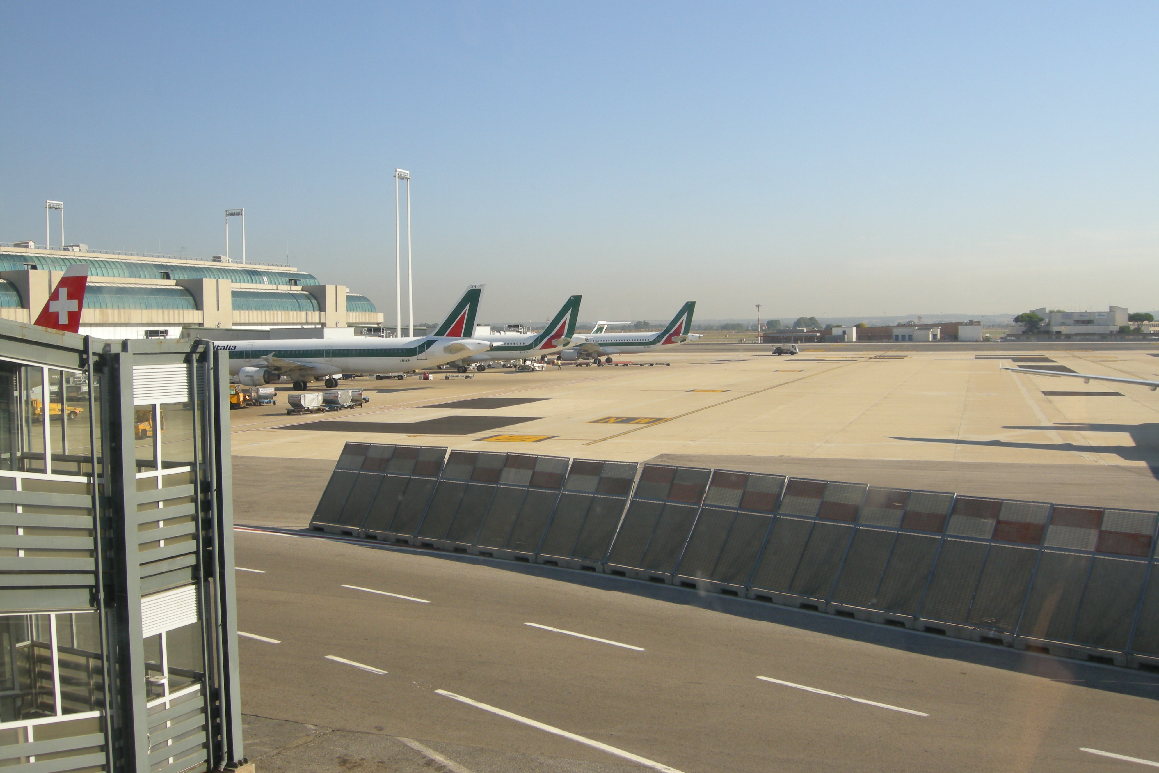 Airport Leonardo da Vinci (Fiumicino) in Rome, Italy